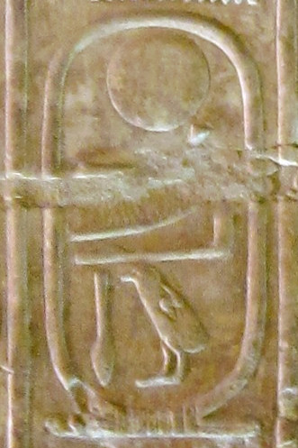 Cartouche 65, Abydos King List. Temple of Seti I, Abydos, Egypt